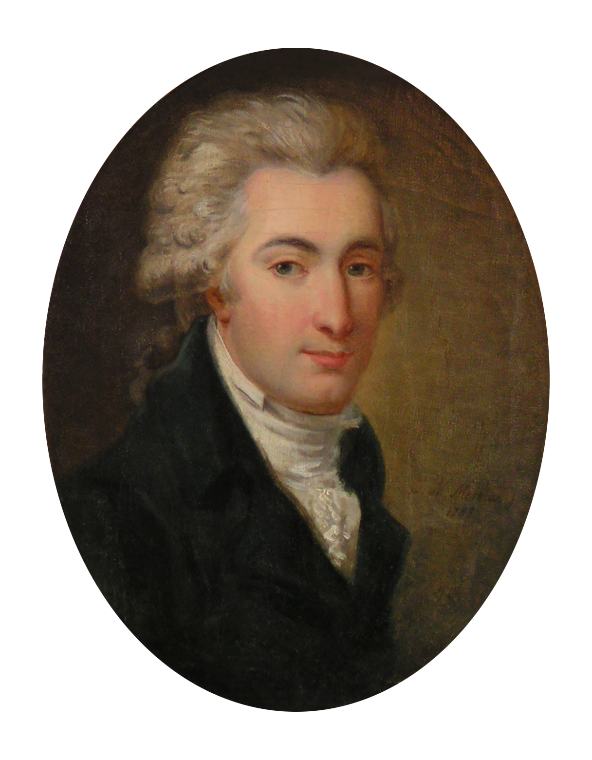 Louis-Antoine de Bourbon-Condé by Jean-Michel Moreau